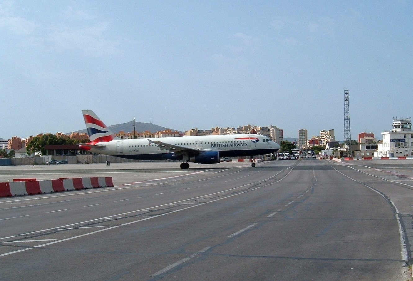 Airplane taking off across road in Gibraltar